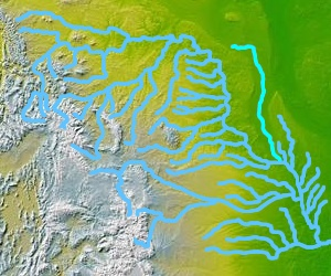 James River ©2004 Matthew Trump